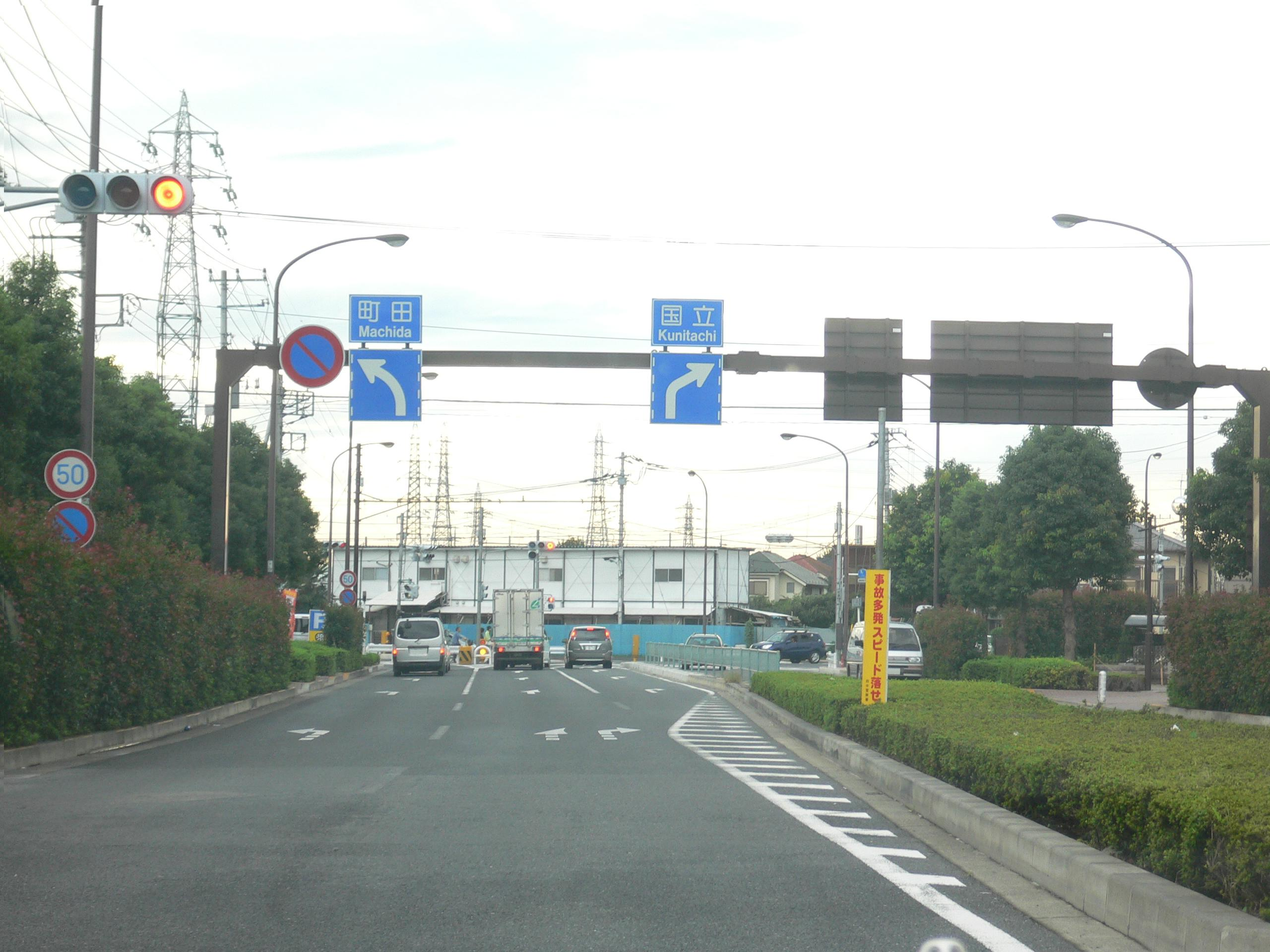 Tokyo metro road no.14 (東八道路), Fuchu C, Tokyo M.